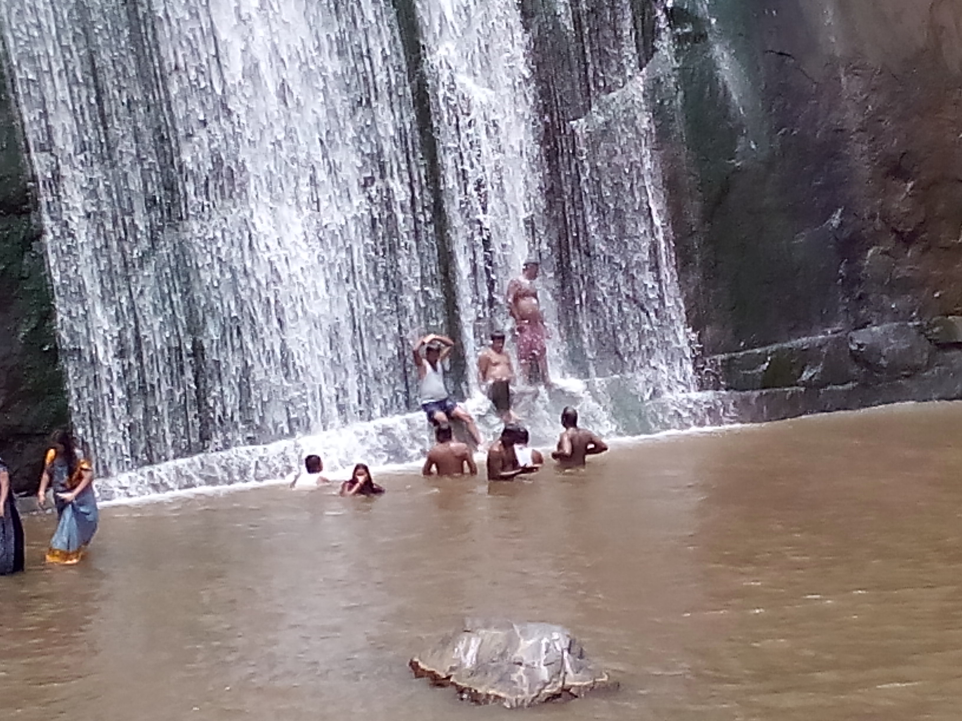 அருவி